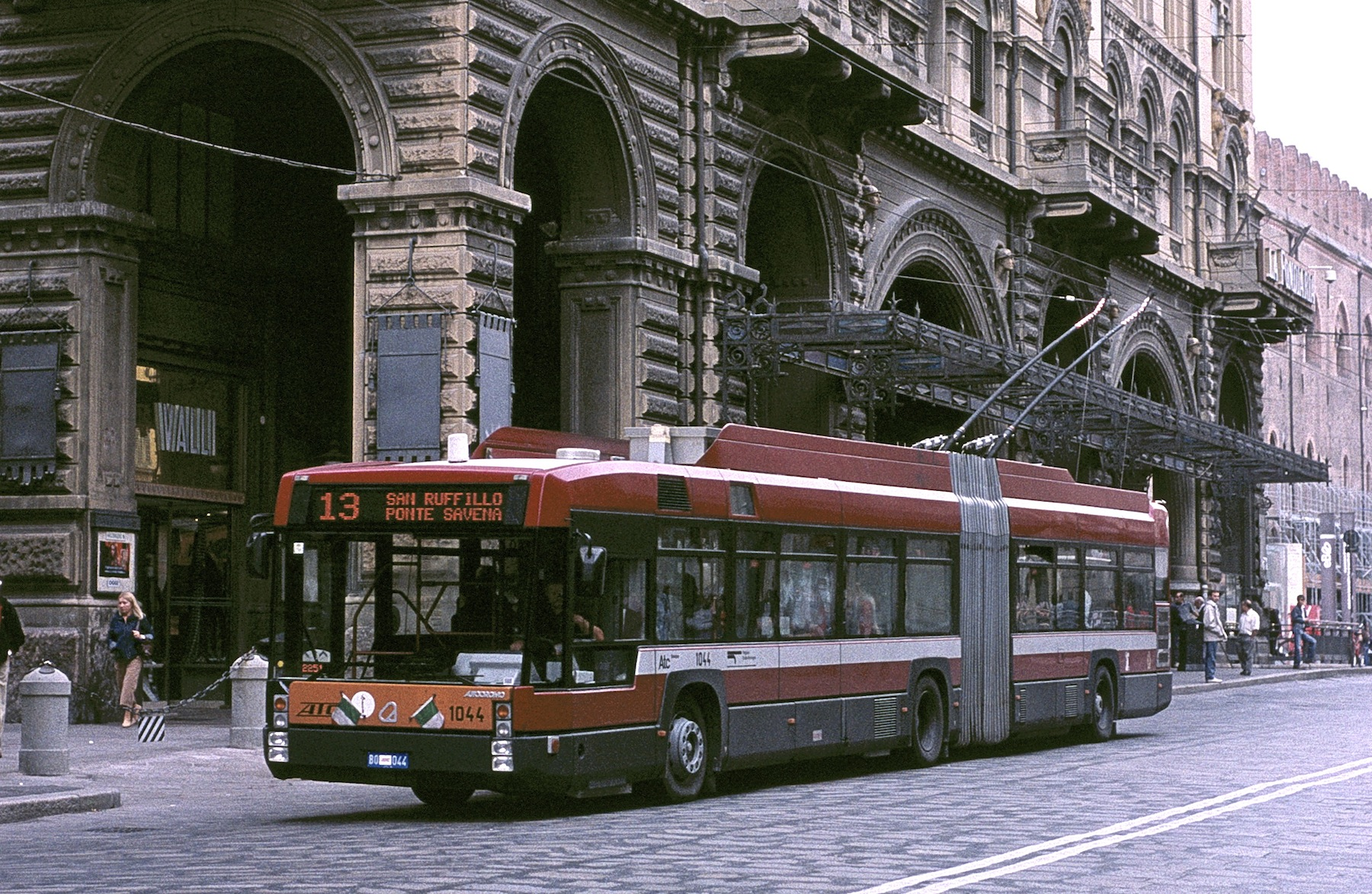 In Bologna, Italy, a trolleybus travels east on Via Rizzoli at Via degli Artieri, in the historic city centre. Trolleybus 1044 was built in 1999 by Modena-based Autodromo (Carrozzeria Autodromo Modena), on an MAN chassis. It is in service on route 13 to San Ruffillo.